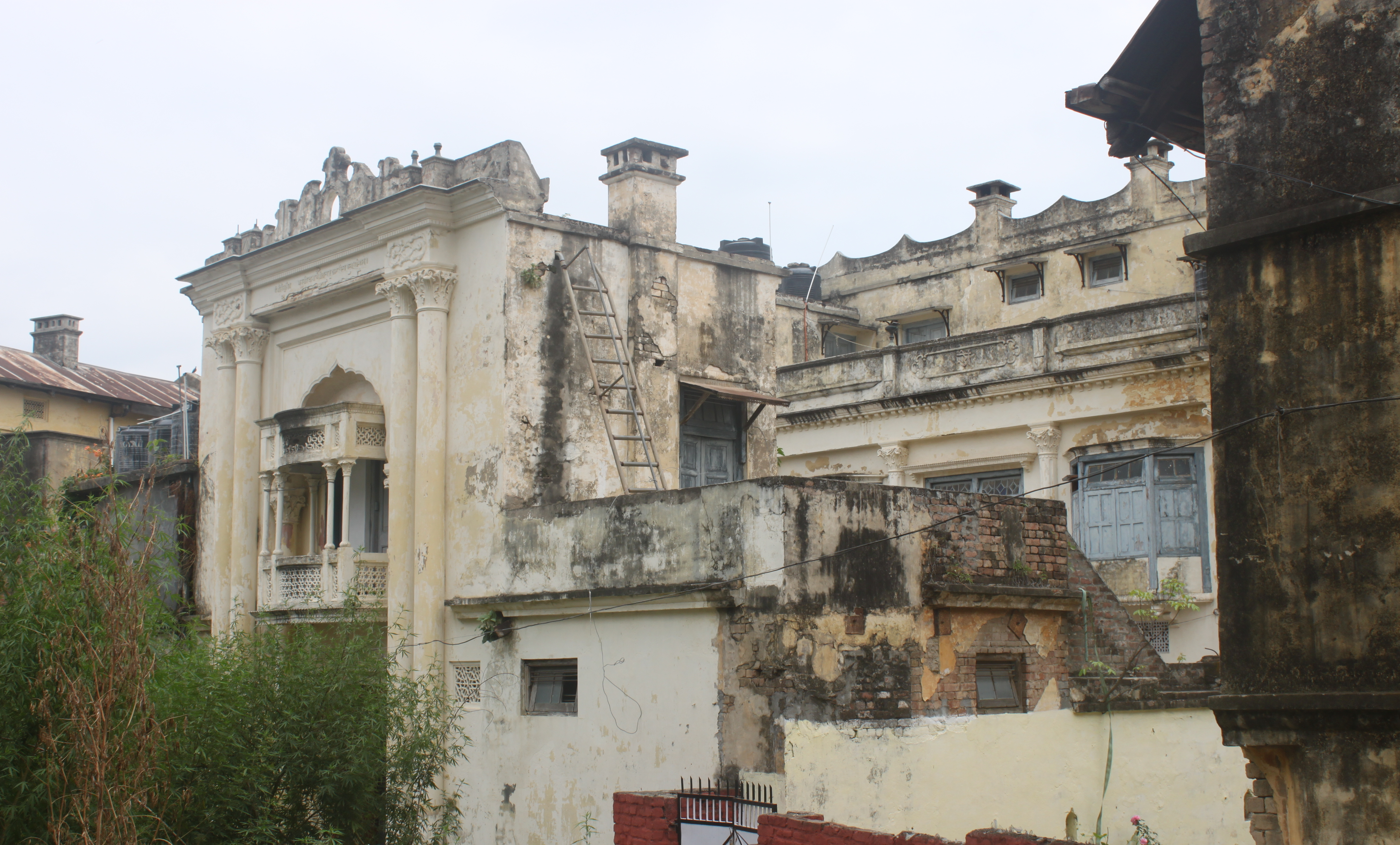 Old buildings of Haroli